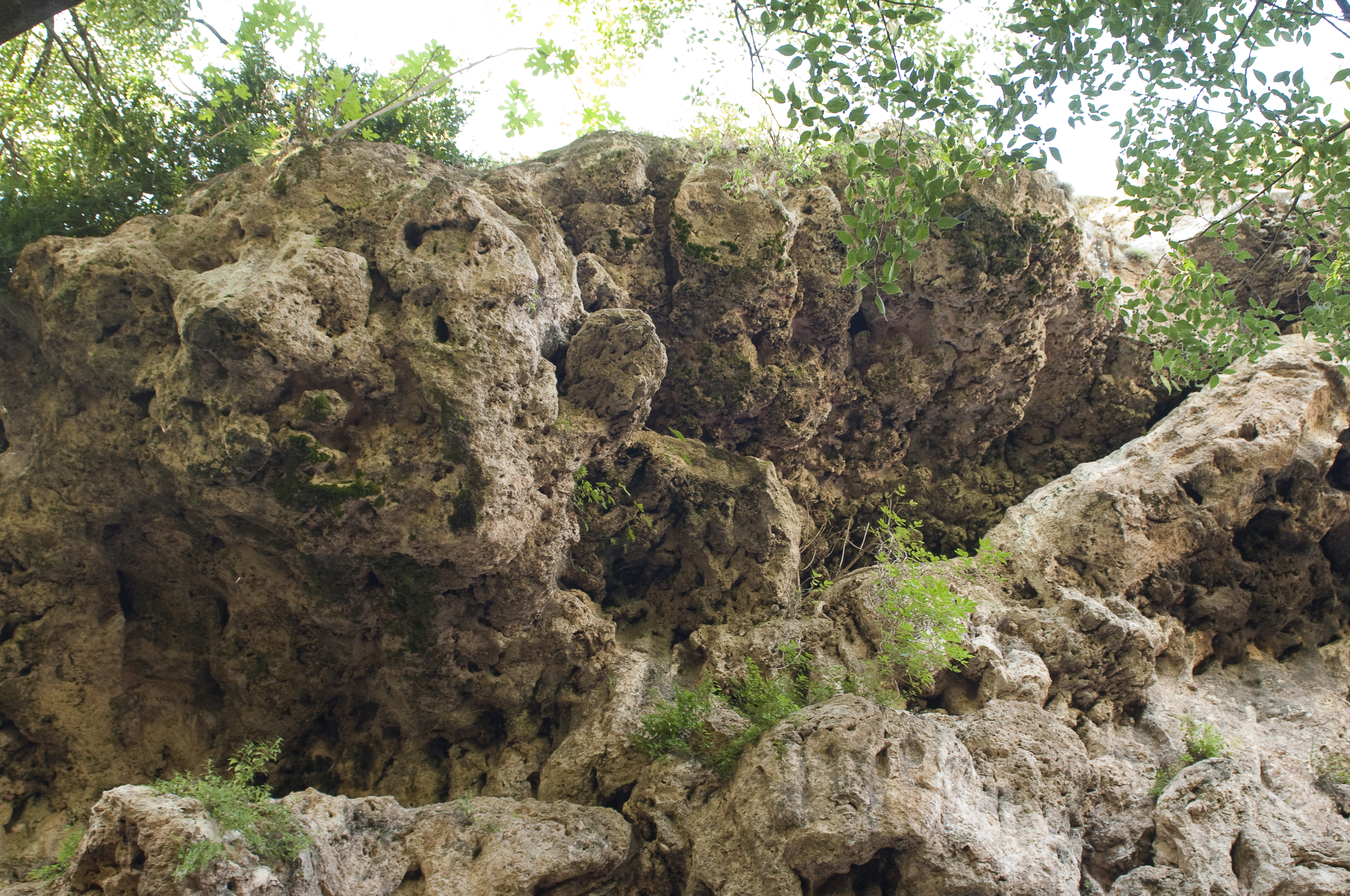 overview about some place of Carme's river